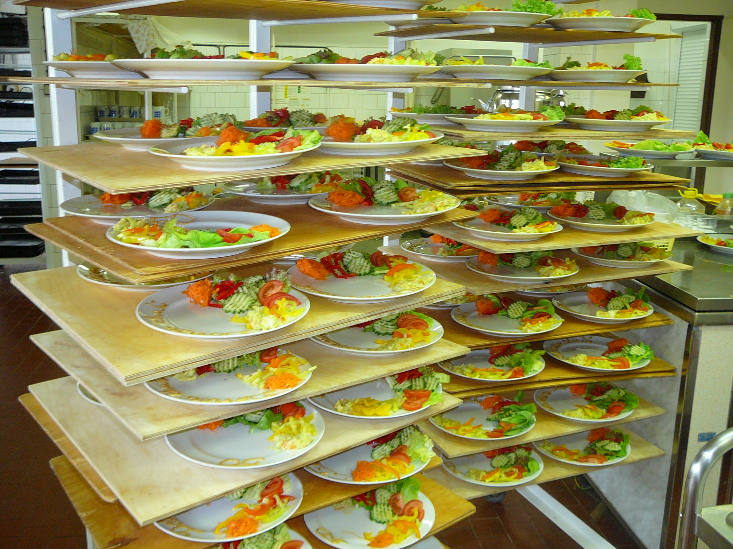 Plates with vegetables